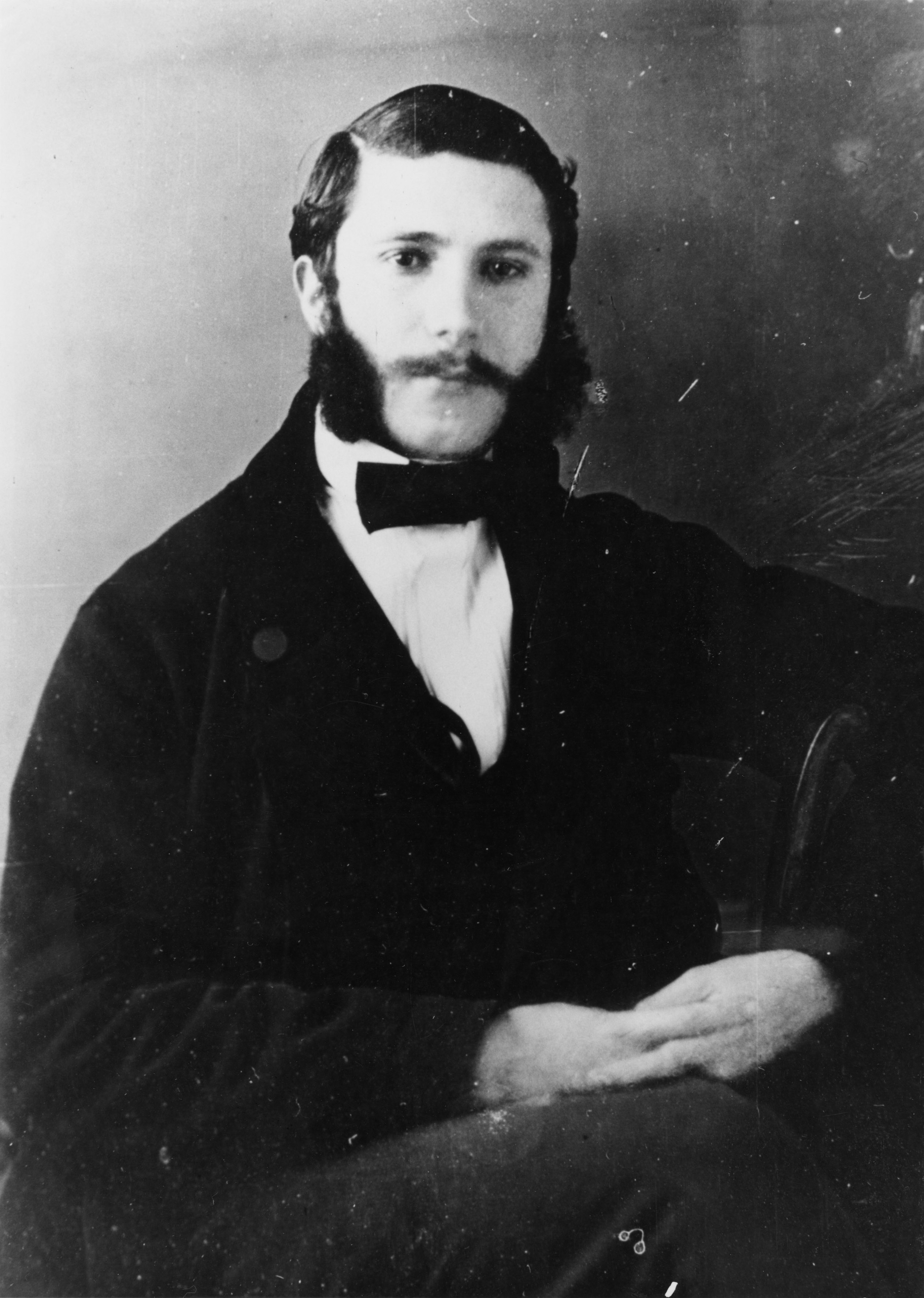 The man whose vision led to the creation of the worldwide Red Cross and Red Crescent movement.